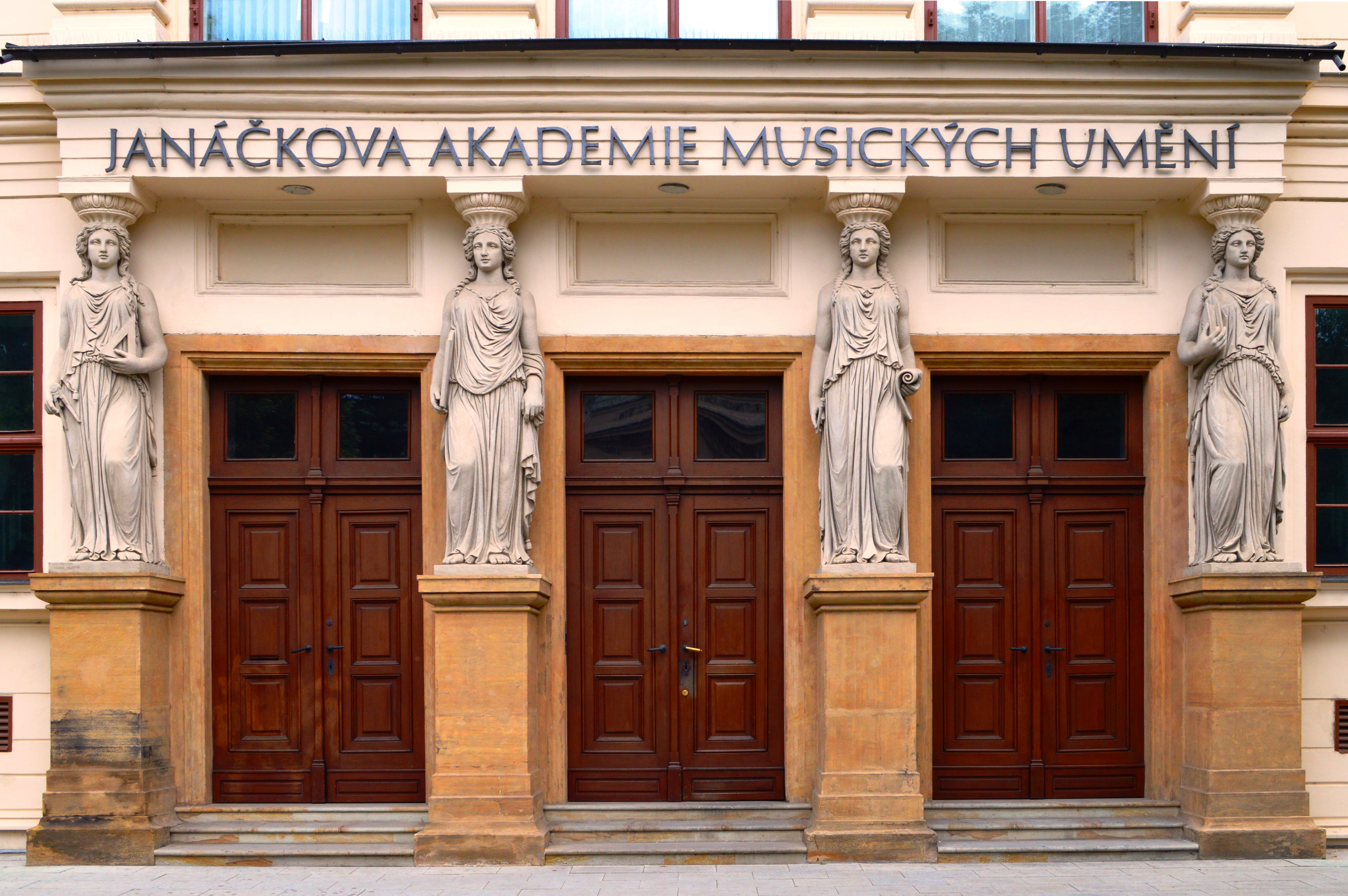 Brno is the second largest city in the Czech Republic by population and area, the largest Moravian city, and the historical capital city of the Margraviate of Moravia. Brno is the administrative centre of the South Moravian Region and lies at the confluence of the Svitava and Svratka rivers. The city was founded about a thousand years ago, it received city status in the year 1243, and for centuries it served as the capital city of Moravia, until 1948 when the autonomy of Moravia was abolished by the communists. The city flourished mainly during the nineteenth century. Today's Brno is a mixture of many different architecture styles. The most visited sights of the city include the Špilberk Castle and fortress and the Cathedral of Saints Peter and Paul on Petrov Hill, two medieval buildings that dominate the city skyline and are often depicted as its traditional symbols. The other large preserved castle near the city is Veveří Castle by the Brno Dam Lake. This castle is the site of a number of legends, as are many other places in Brno. The Scotch Mist Gallery contains many photographs of historic buildings, monuments and memorials of Poland and beyond.